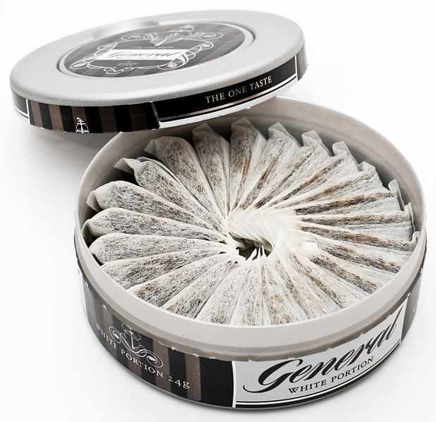 Pic of Snus